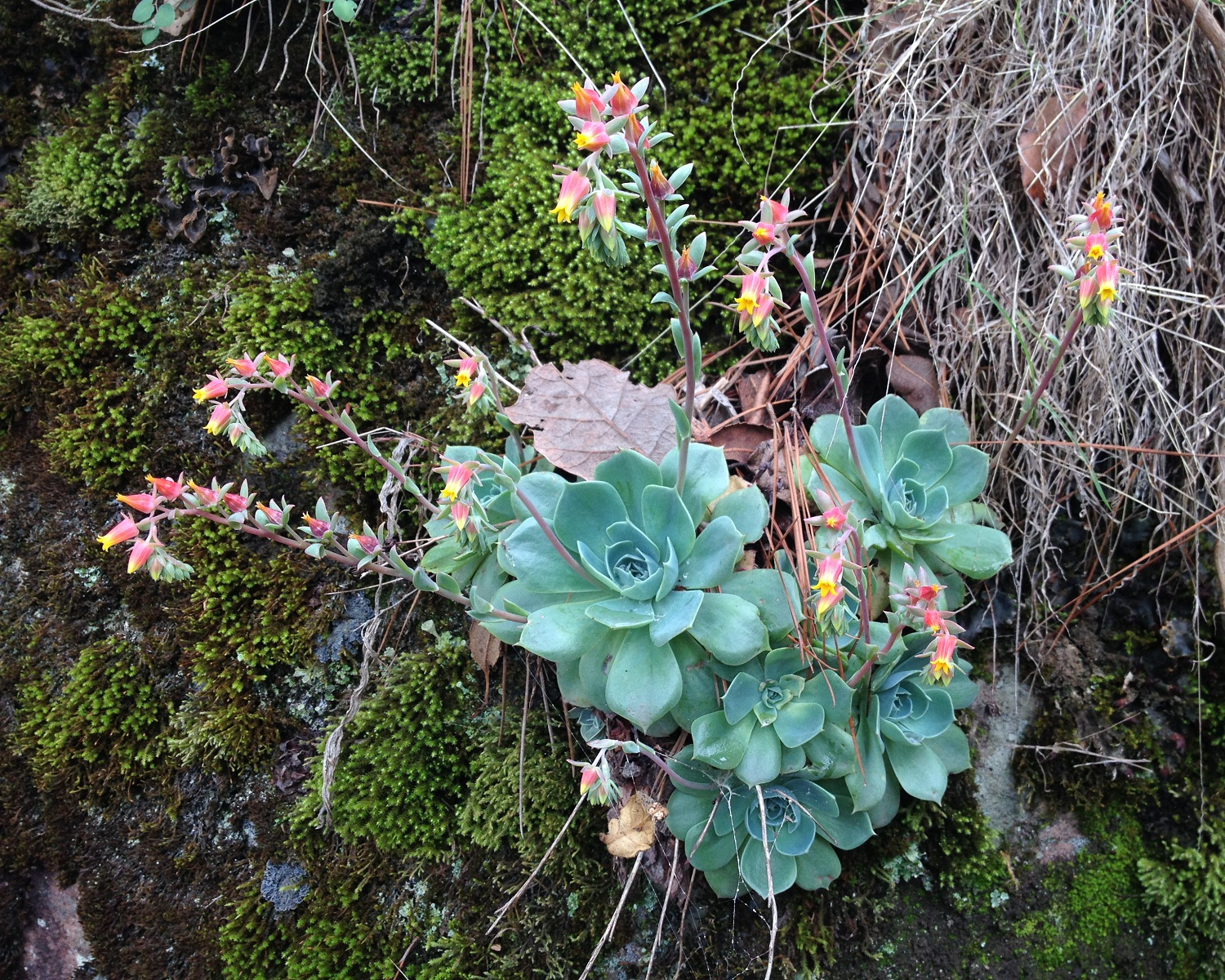 Echeveria secunda is a succulent plant of the stonecrop family Crassulaceae, native of Mexico.